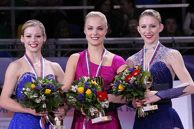 The Ladies podium at the 2012 Rostelecom Cup. From left: Gracie Gold (2nd), Kiira Korpi (1st), Agnes Zawadzki (3rd)